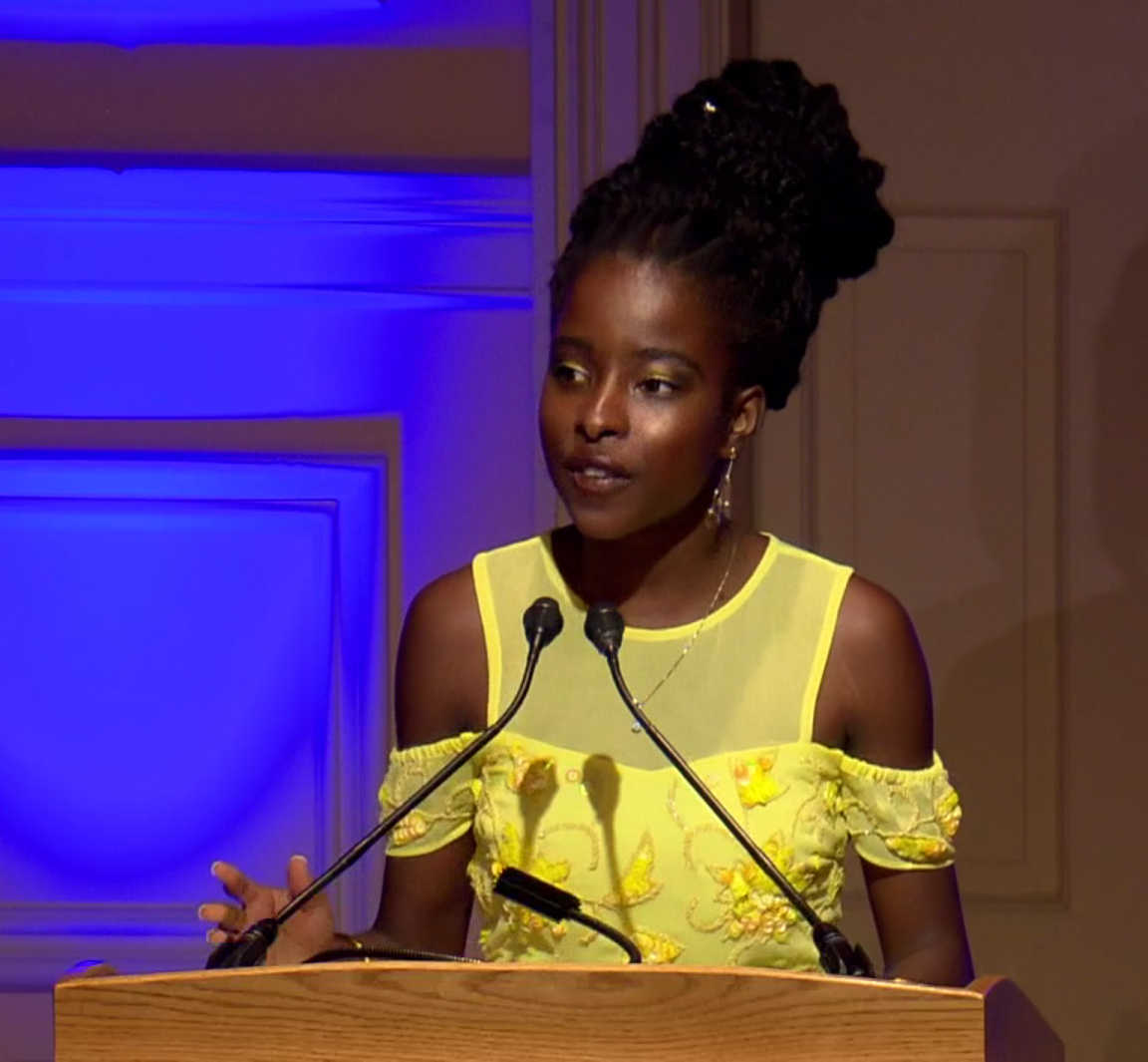 Amanda Gorman is an American poet and activist from Los Angeles, California.